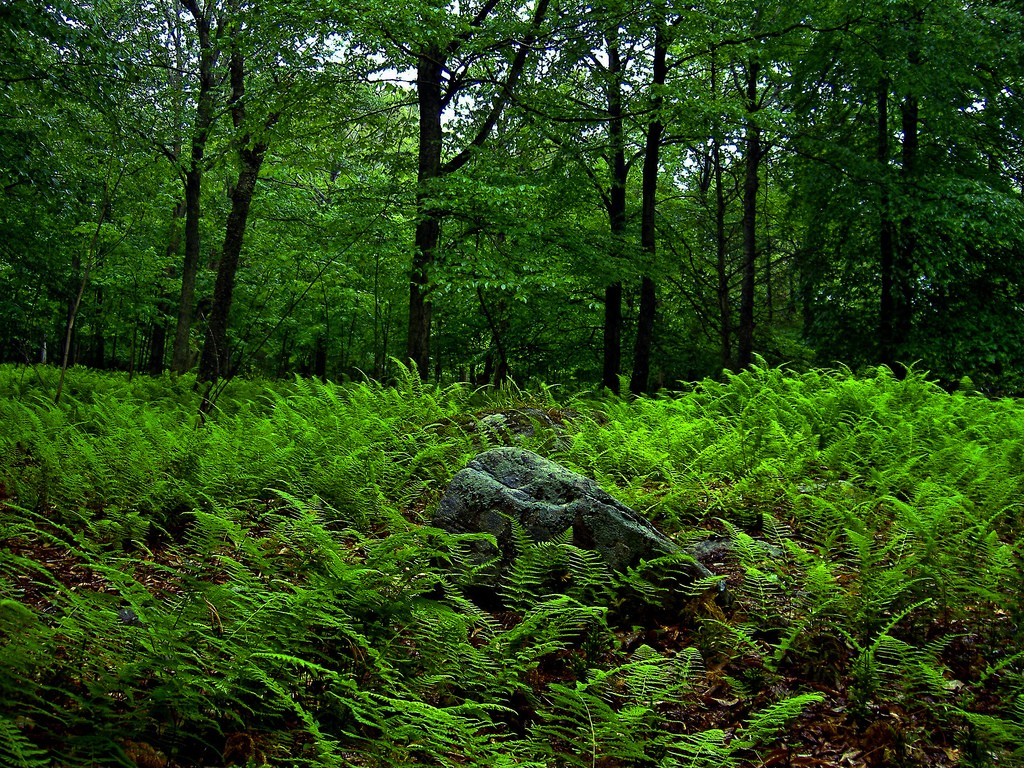 Rain-soaked undergrowth, Promised Land State Park, Pike County. (Taken in July 2006.)